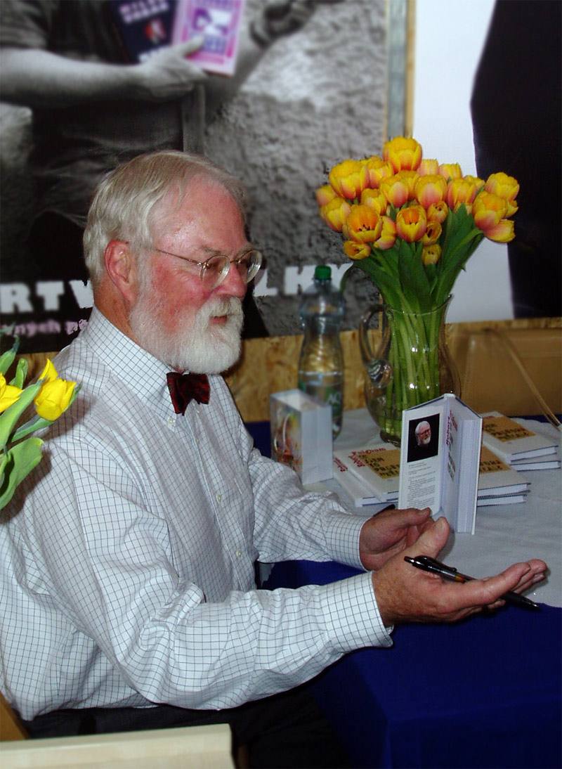 writer Robert Fulghum, International Book Fair - BOOKWORLD PRAGUE 2007